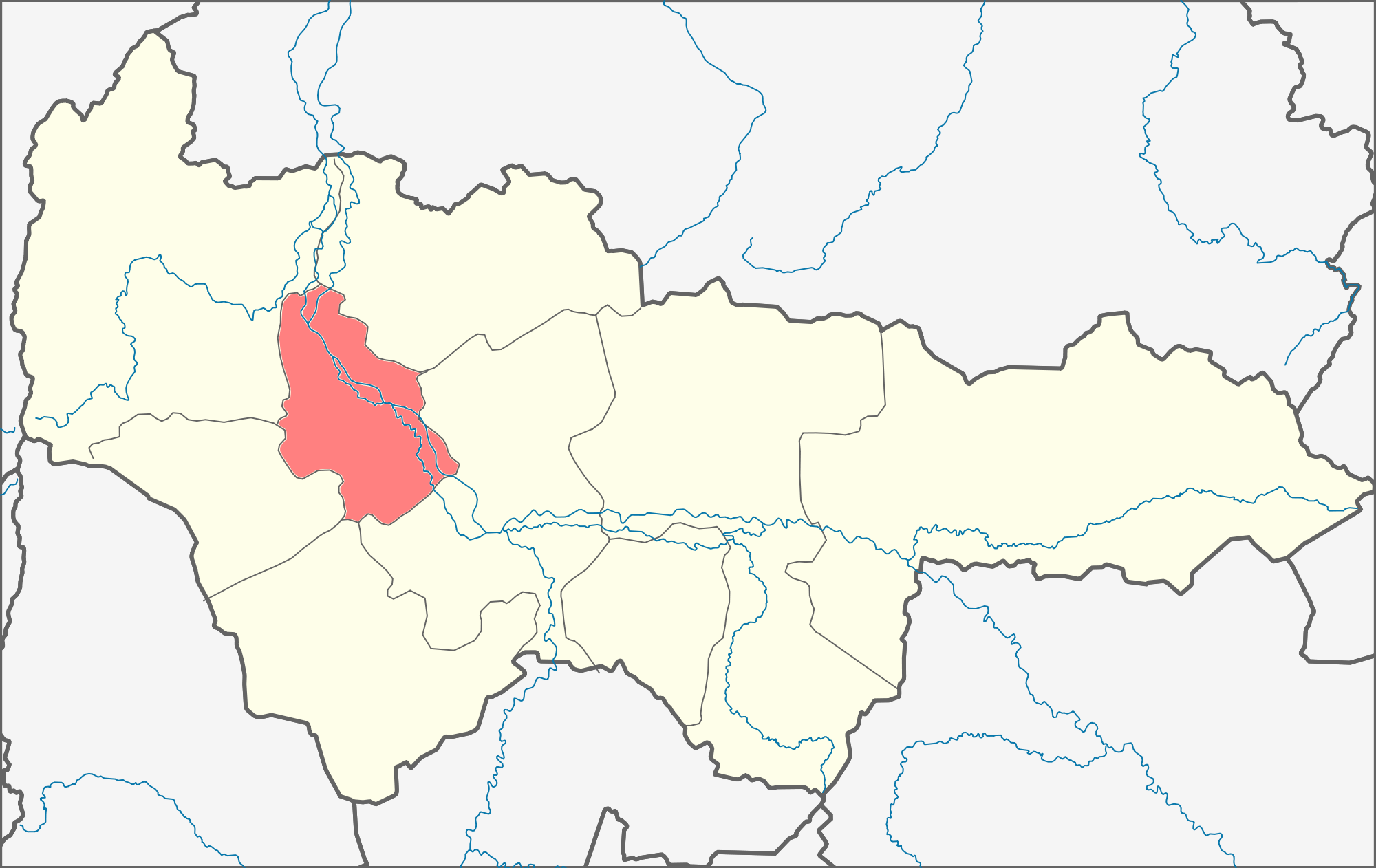 Location of Oktyabrsky District in the Khanty–Mansi Autonomous Okrug, Russia. This is a derivative work, based on